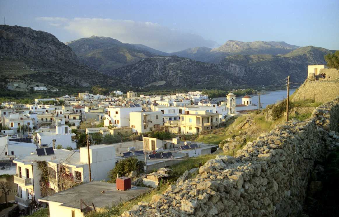 Town of Palaiochora in Crete from its hill in evening light, April 1997